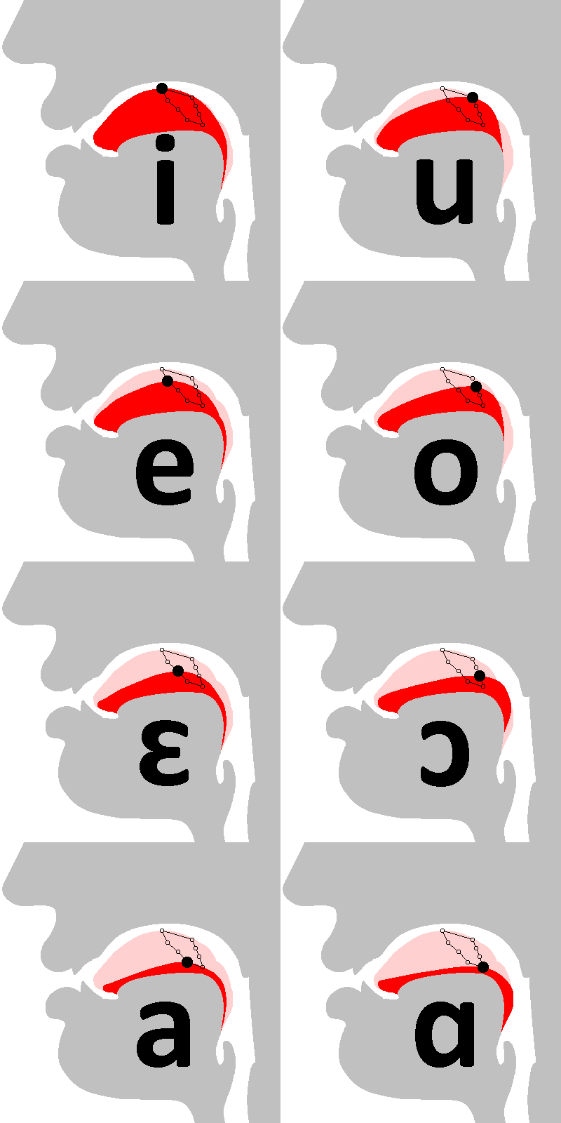 Combination of 2 images: front and back vowels